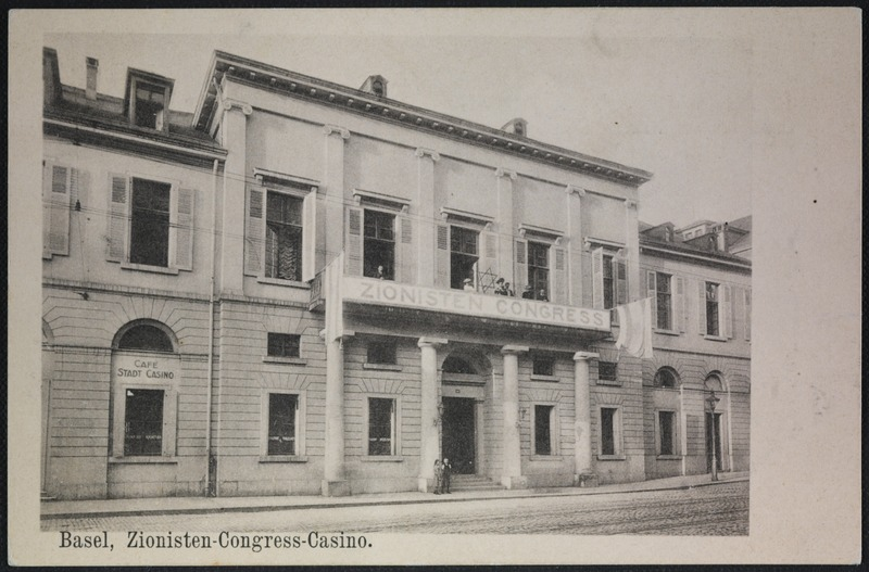 Postcard with a photo print of the casino in the city hall of Basel, Switzerland. On the balcony of the building is the sign: "Zionisten Congress" flanked by blue and white flags. The early Zionist Congresses were held in this building from the year 1897. This postcard has not been used and there is no date on it. According to the design of the flags next to the sign, it is likely that the postcard was produced in honor of the Tenth Zionist Congress, held in 1911, but it is also possible that it is from one of the earlier congresses. This postcard was published by "Zion" in Vienna, Austria, probably at the end of the first decade of the twentieth century.